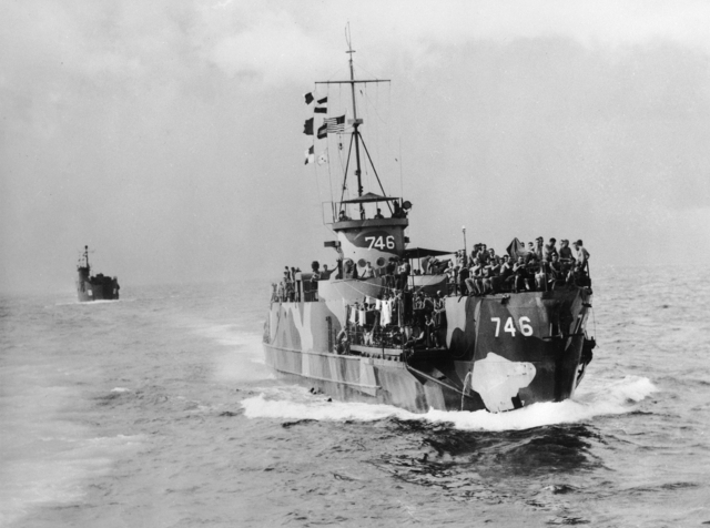 Crowded US Navy Landing Craft Infantry approaching Labuan during the landing there